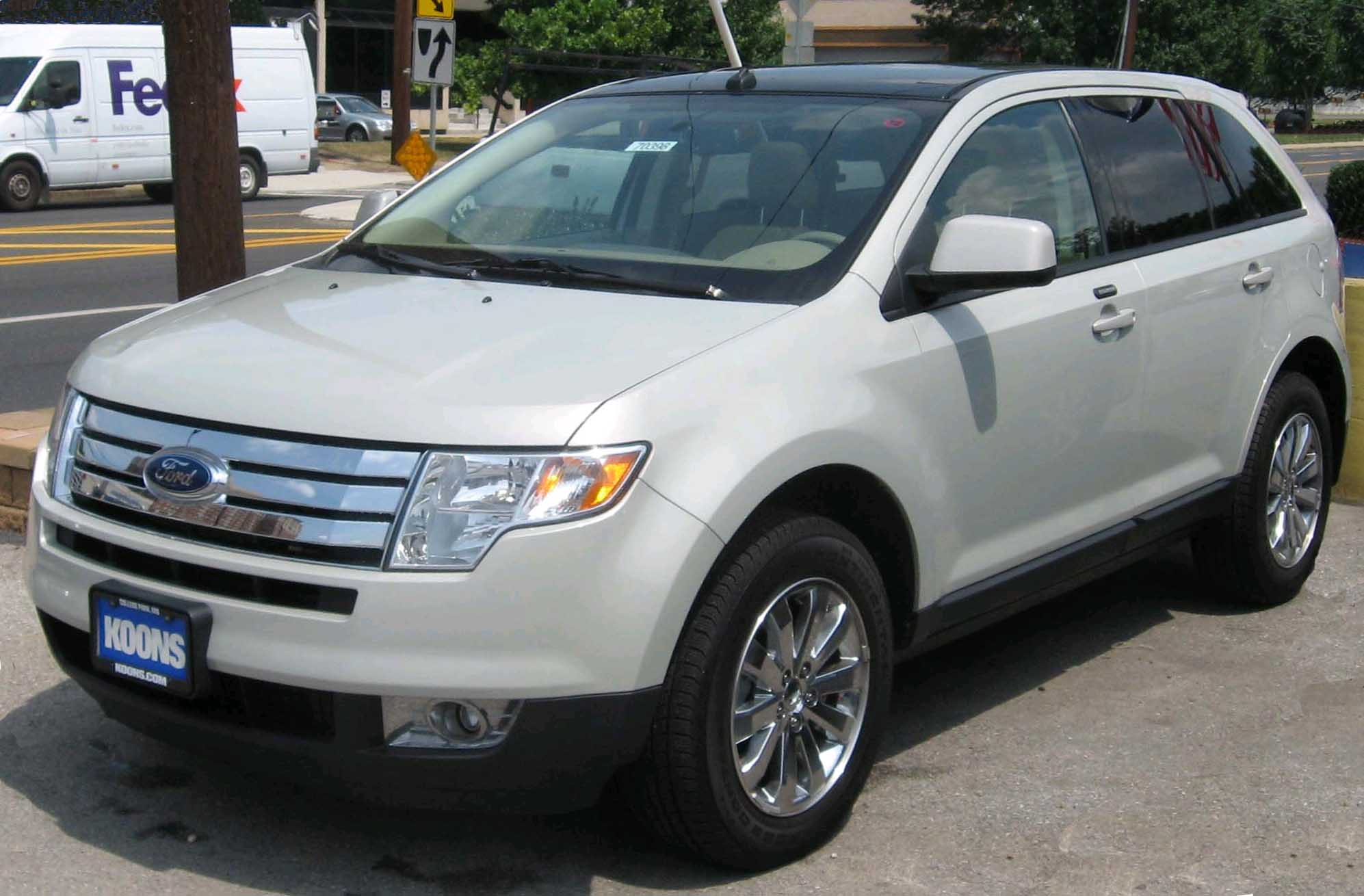 2007 Ford Edge photographed in College Park, Maryland, USA.